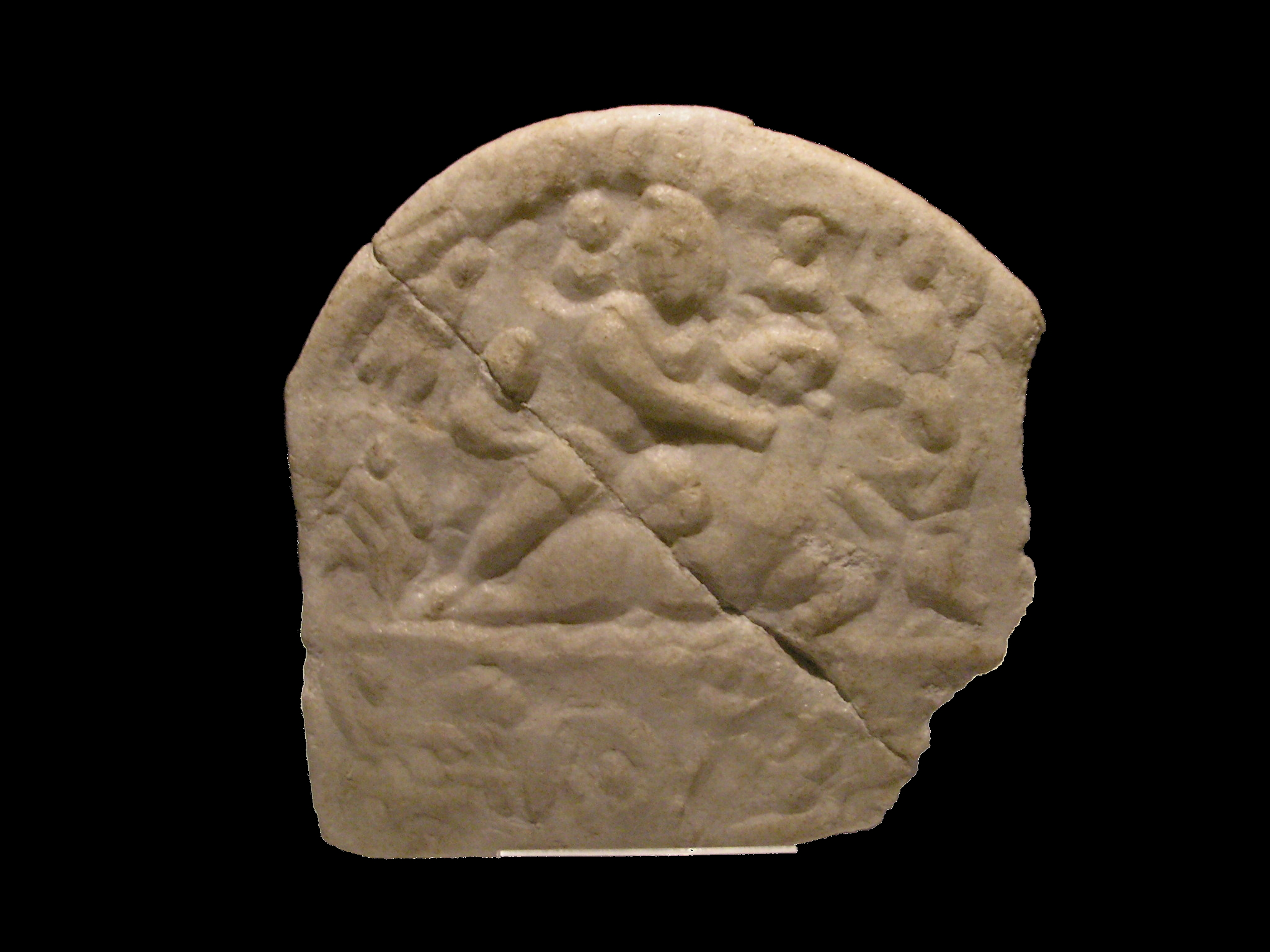 Mithraic relief, 150-250 A.D. Marble. The votive relief shows scenes from the life of the God Mithras. The mystery religion was especially popular among soldiers.